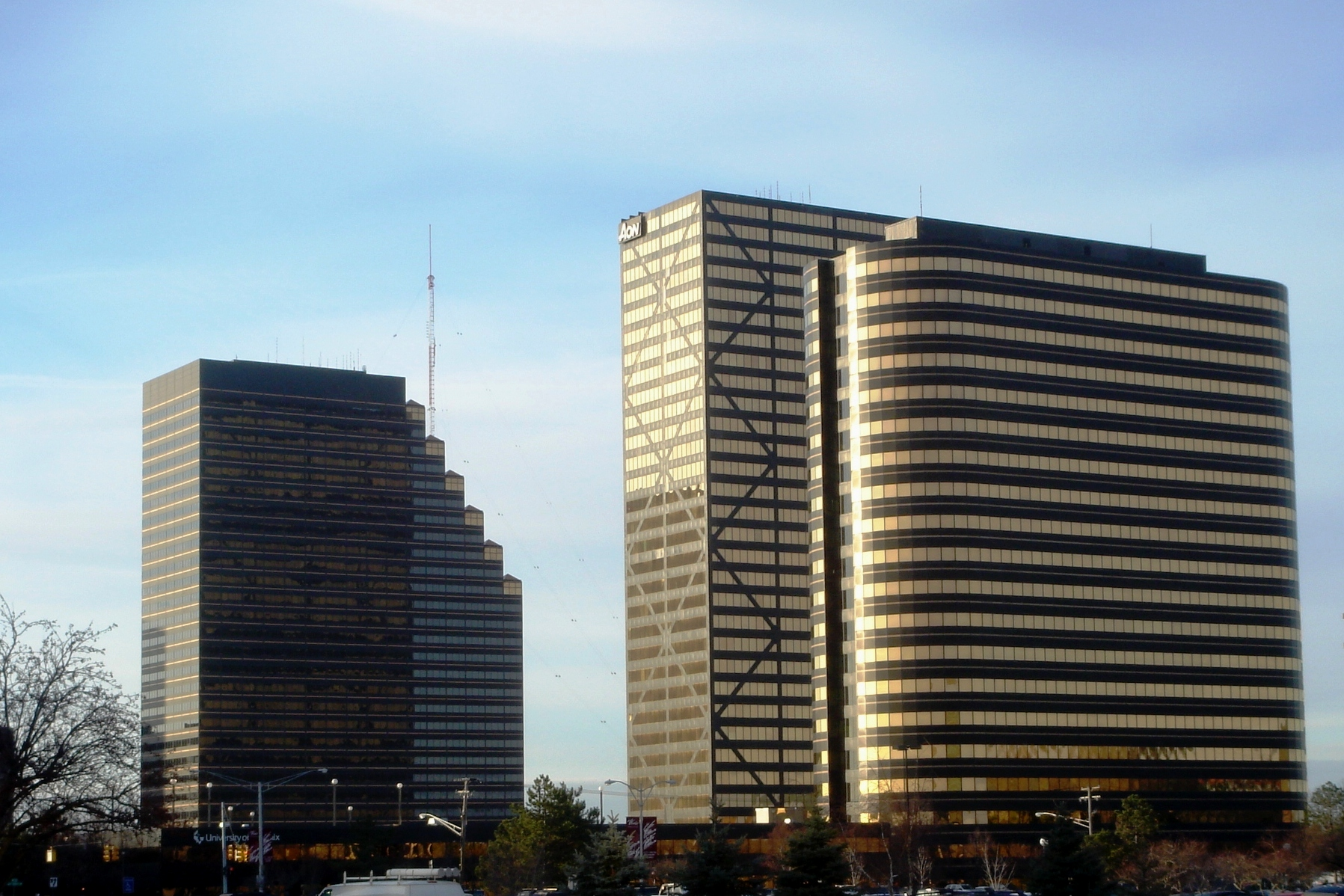 Southfield Town Center, from the north east.